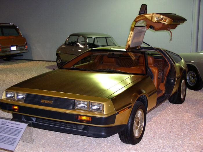 1981 24 karat gold plated DeLorean. William F Harrah Foundation National Automobile Museum in Reno, Nevada.